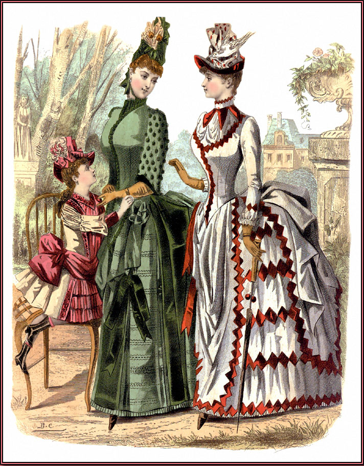 Mid-1880's fashion plate (scanned by C. Perrien in 2000), from which Image:Bustle.png and Image:1880s-fashions-overview.jpg were excerpted.